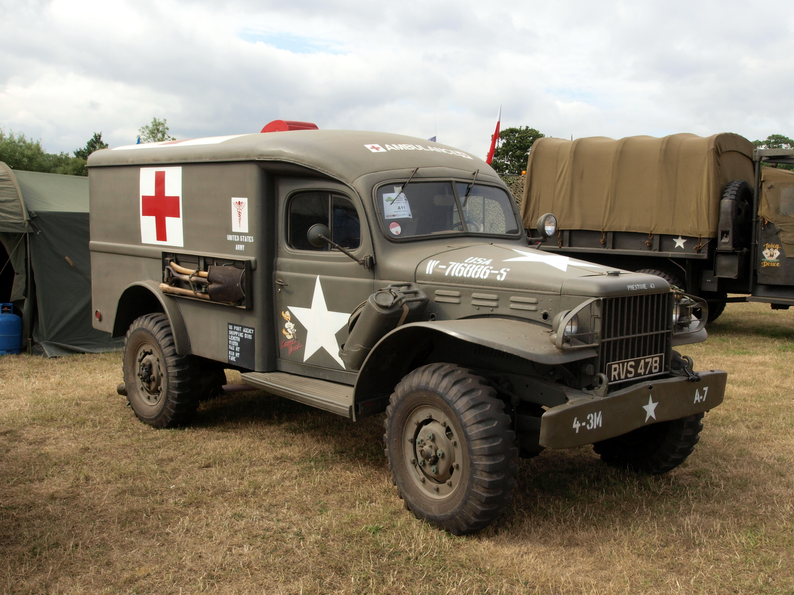 Dodge WC-54 military ambulance. G-502 4x4, W-716886-S